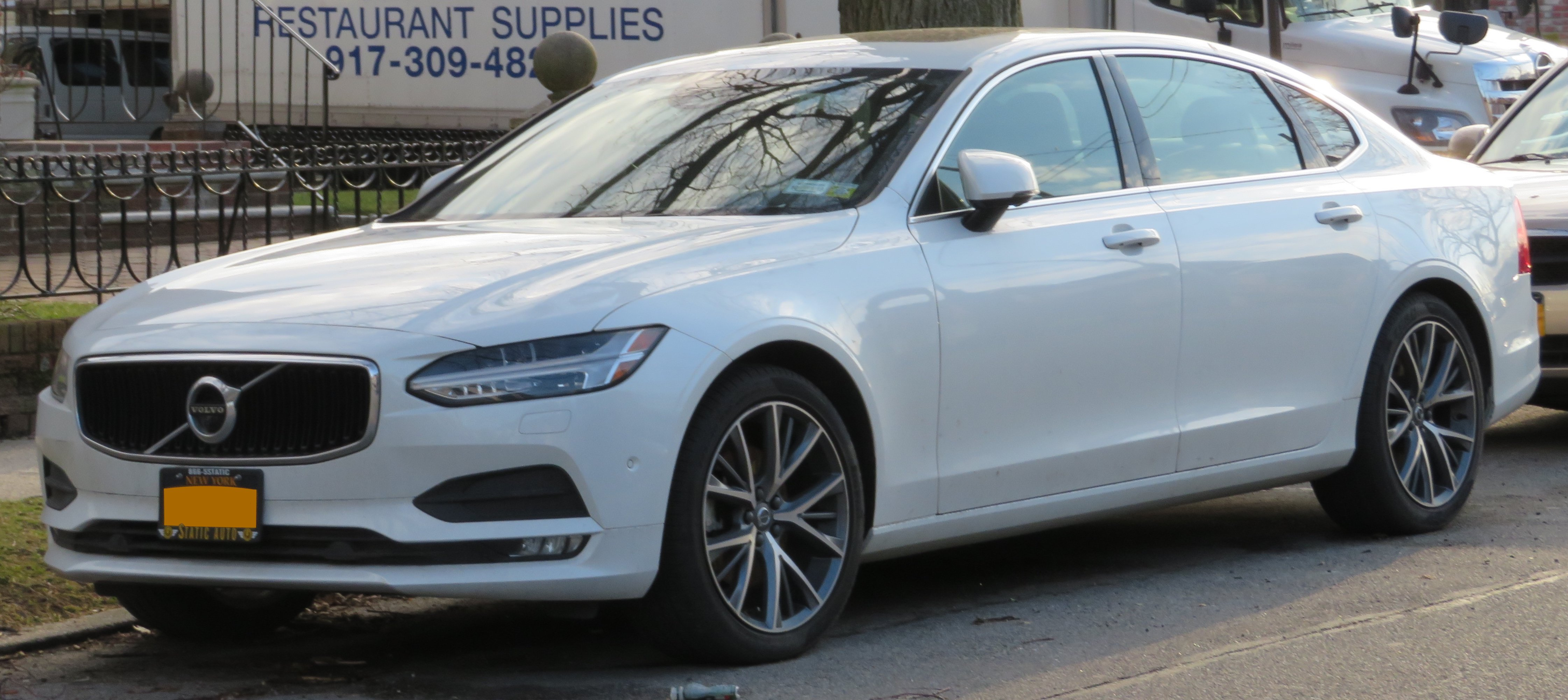 In Queens, New York